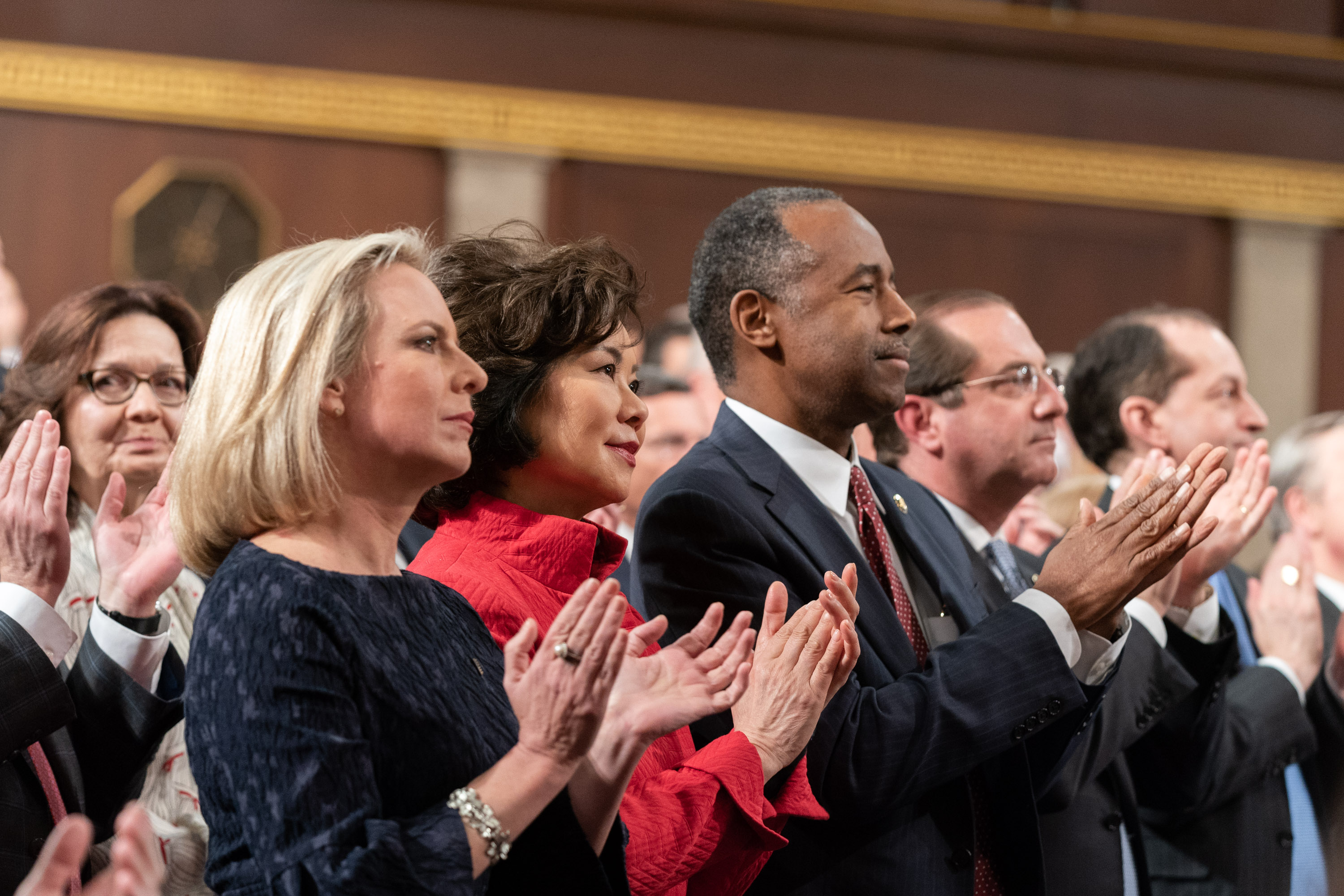 Members of the Cabinet applaud President Donald J. Trump as he delivers his State of the Union address at the U.S. Capitol, Tuesday, Feb. 5, 2019, in Washington, D.C. (Official White House Photo by Shealah Craighead)